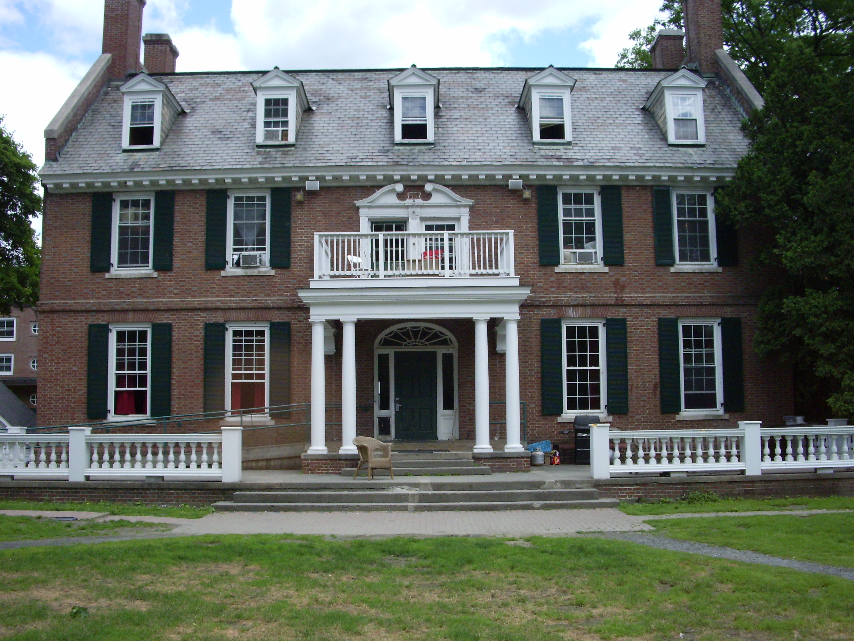 Photograph of Alpha Delta at the campus of Dartmouth College in Hanover, New Hampshire.